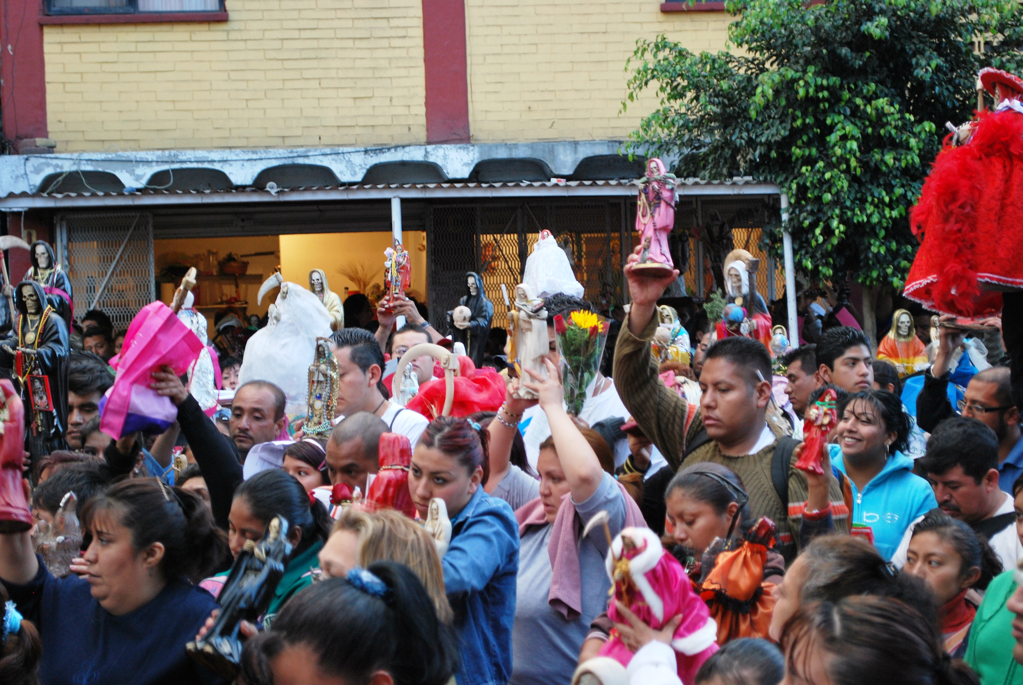 Raising of Santa Muerte images during a service in honor of the deity on Alfareria Street Tepito Mexico City